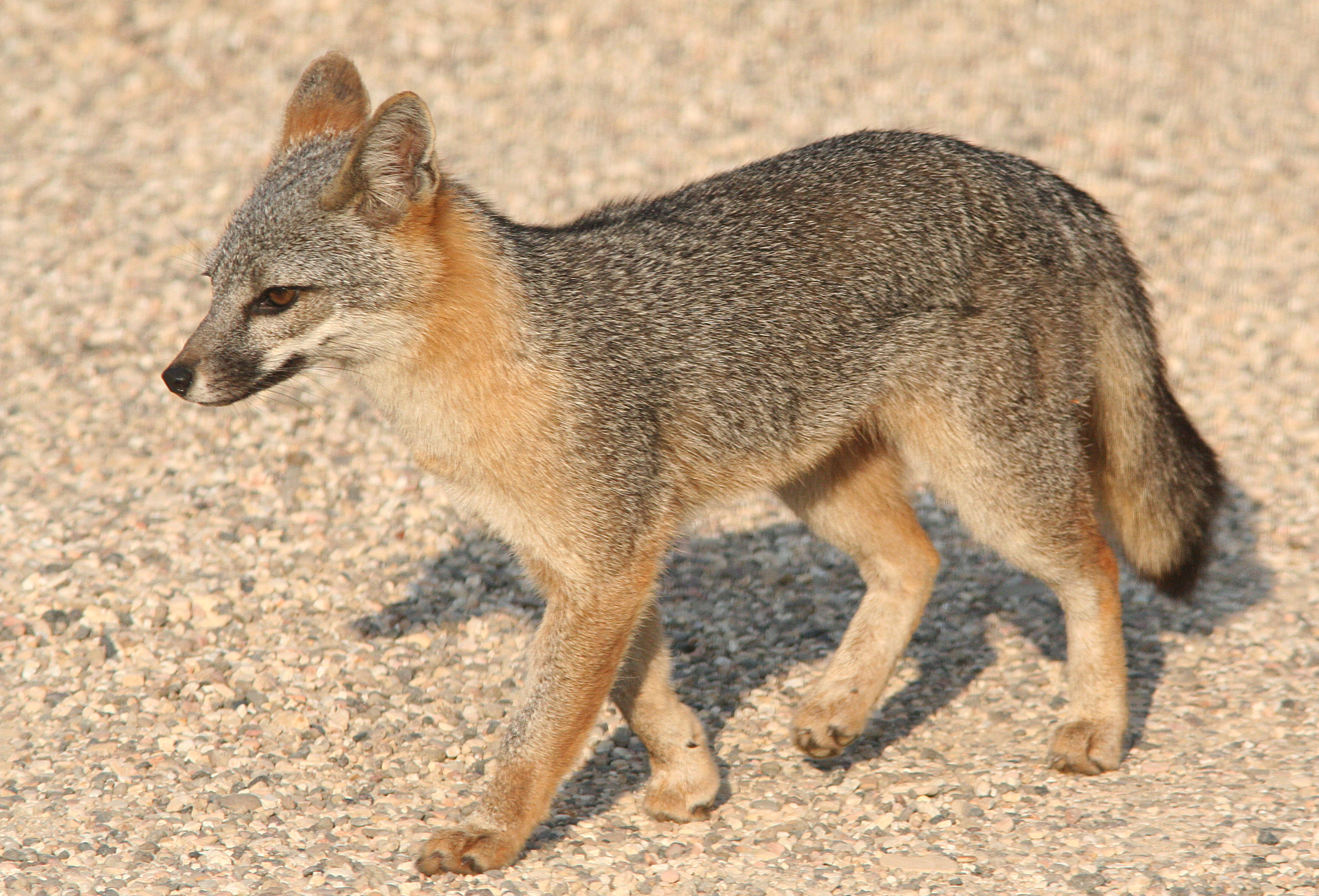 CRITTERS (MAMMALS)